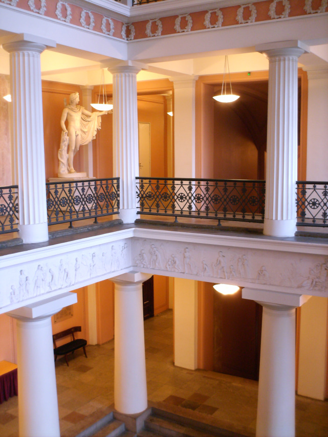 Photograph of the vestibule in the main building of Helsinki University.